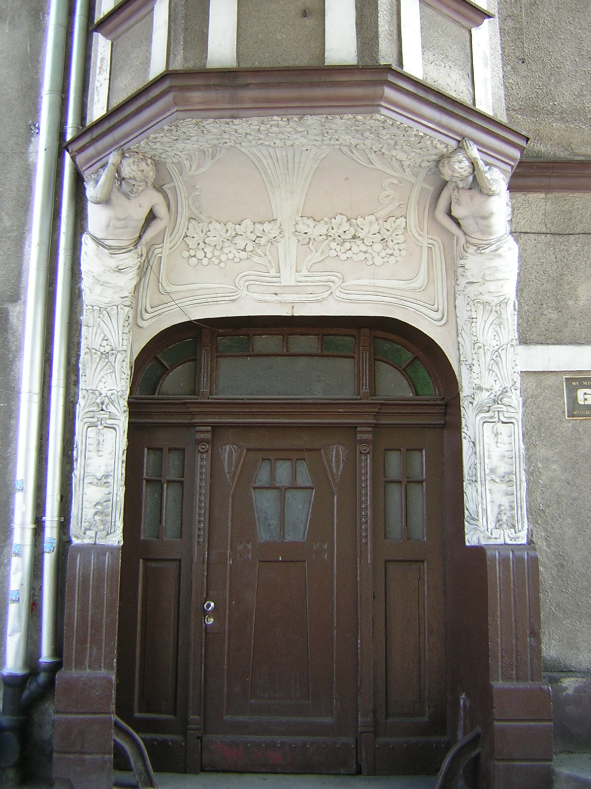 Two hermai in Iława (Poland)